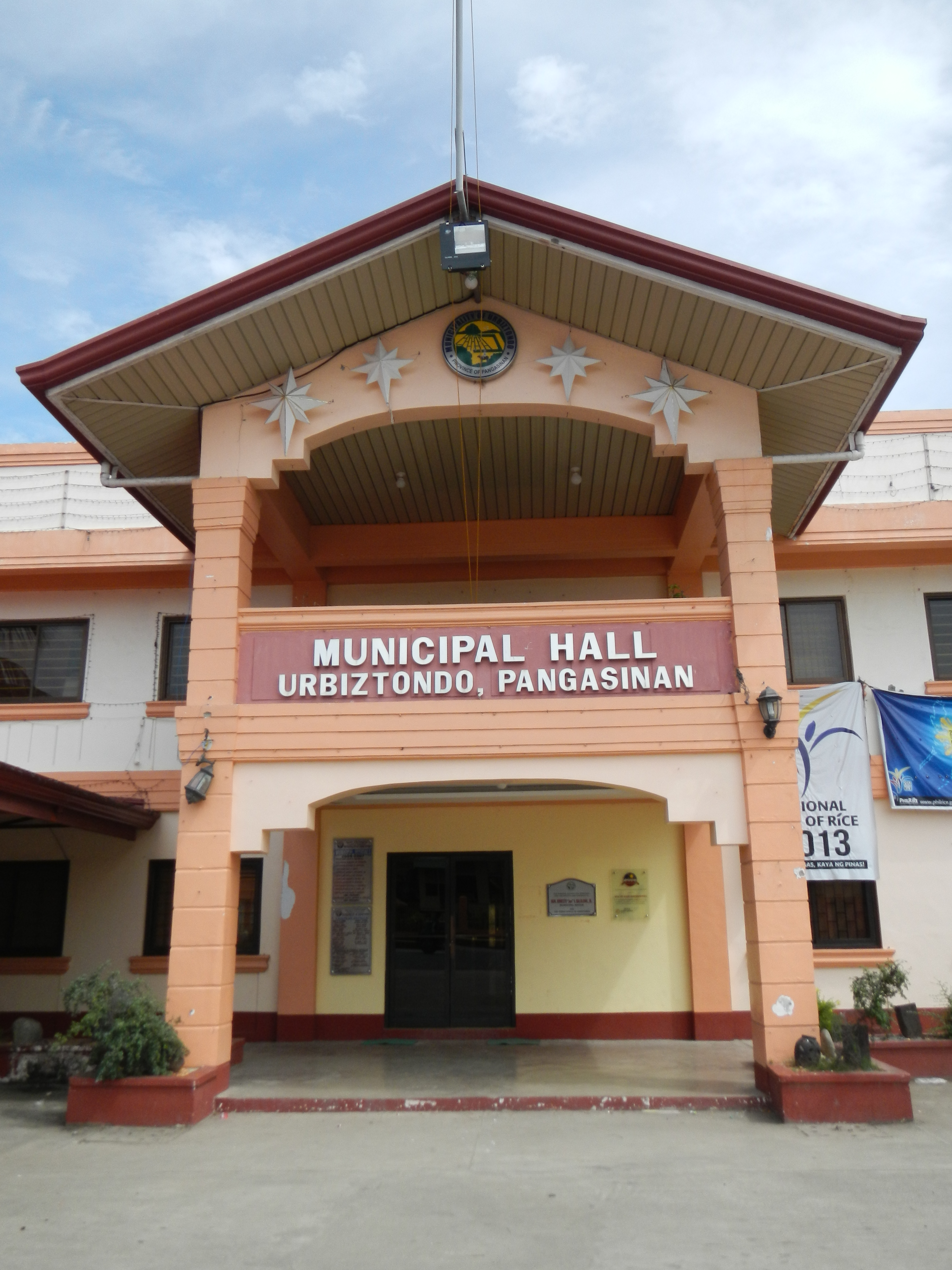 Urbiztondo Municial Hall (including Town Proper, Downtown, Rizal-MacArthur Memorial Foundation, Inc. Community Hospital, Commercial, Business Center, Crossing, Junction, Bus, Jeepney and Bus stops, terminals, Public Market, Colegio de Urbiztondo - surrounding it) of - Urbiztondo, Pangasinan[1] a 3rd class municipality in the province of Pangasinan, politically subdivided into 21 barangays: [2] Land Area: 81.80 km² ZIP Code: 2414 Coordinates: 15°49'22"N 120°20'44"E [3] Map Geographical location: Pangasinan, Region 1, Philippines, Asia Geographical coordinates: 15° 49' 24" North, 120° 19' 53" East.